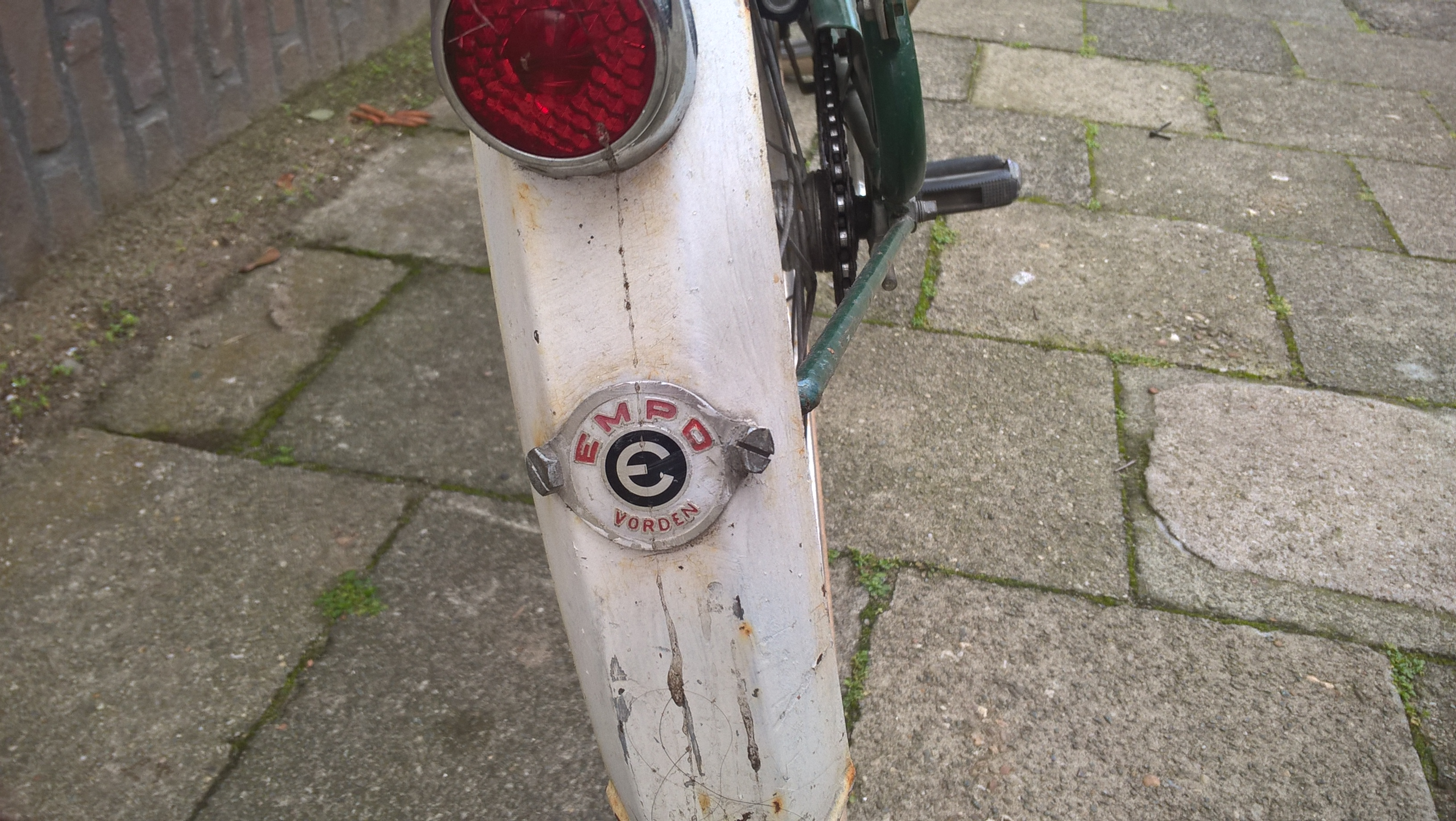 Badge of the Dutch Empo bike manufacturer from Vorden.